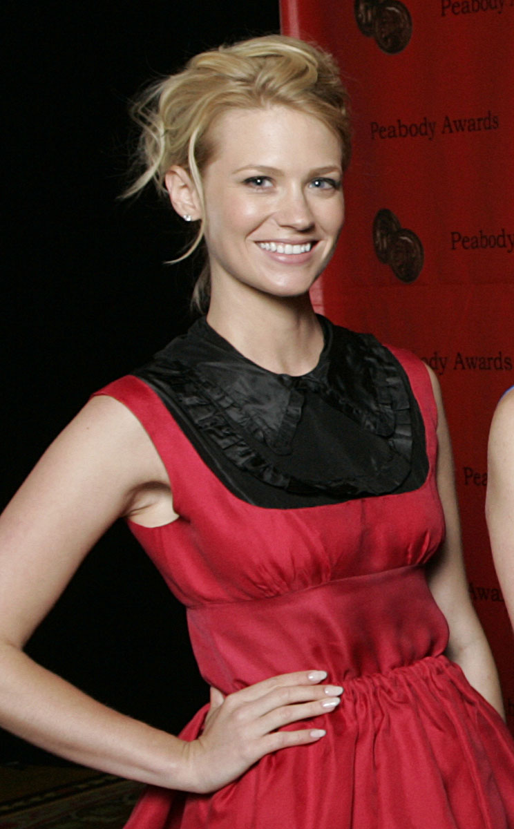 January Jones at the 67th Annual Peabody Awards Luncheon. Waldorf-Astoria Hotel. New York, NY USA. June 16, 2008.